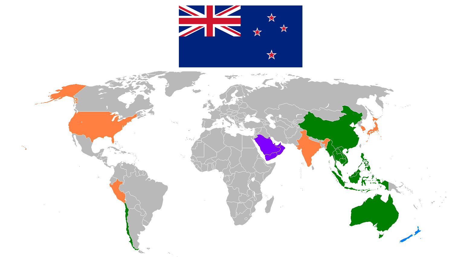 New Zealand FTA Negotiations as of December 2008 Blue= New Zealand Green= Current FTAs Purple= Proposed Regional Bloc FTAs Orange= Proposed Bilateral FTAs